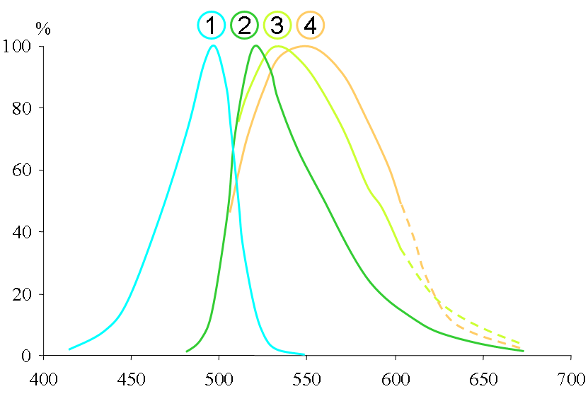 Wavelength of SYBR green I excitation (1), all ratio of complexe SYBR green I/ double strand DNA (2), complexe SYBR green I/ single strand DNA with dye/base ratio of 1 (3) or 10 (4). Power Point graphic extrapolated from Zipper H et al. (Nucl Acids Res 2004;32:e103) datas. For complete description, please see SYBR Green I french Wikipédia article. This potential class is Fluorescent dye. For other similar graph, you can see my Commons Gallery!